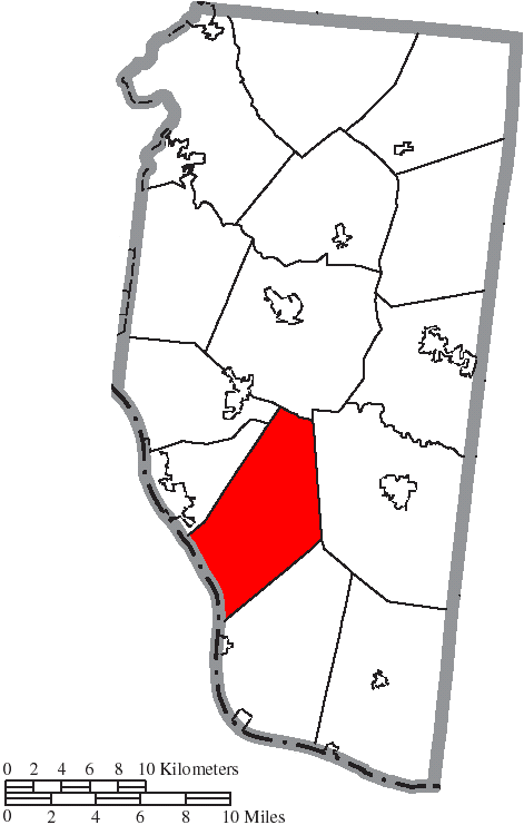 Map of the municipal and township boundaries of Clermont County, Ohio, United States, as of the 2000 census, with the location of Monroe Township highlighted. Township borders are shown only in unincorporated areas in order to differentiate incorporated and unincorporated areas more clearly.